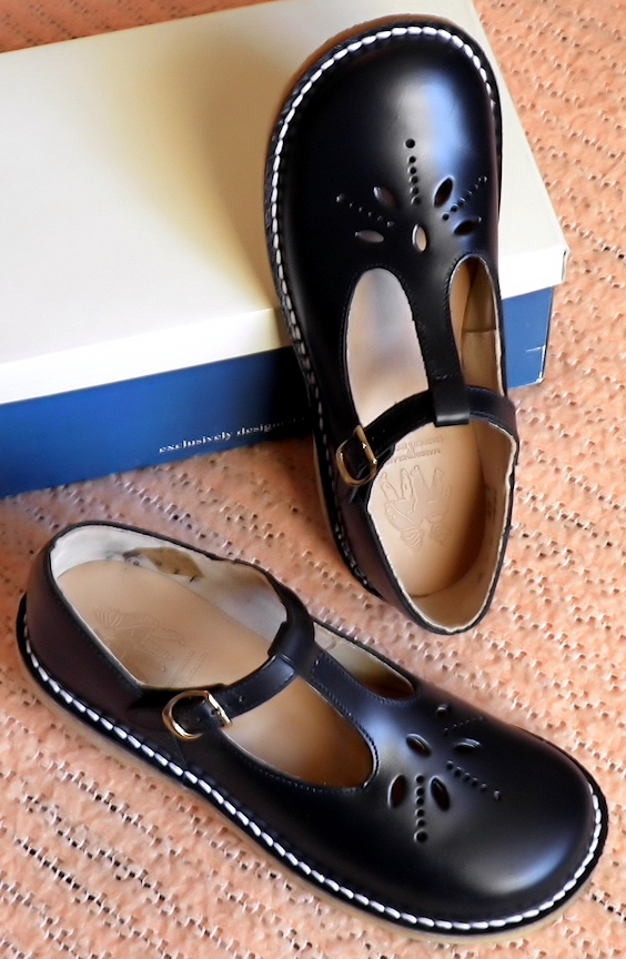 A pair of navy blue leather T-bar shoes from Sonnet (Start-Rite Shoes' subsidiary in the United States), style 3682 (Charlotte), British size 1, width F, dating from approximately 2000.